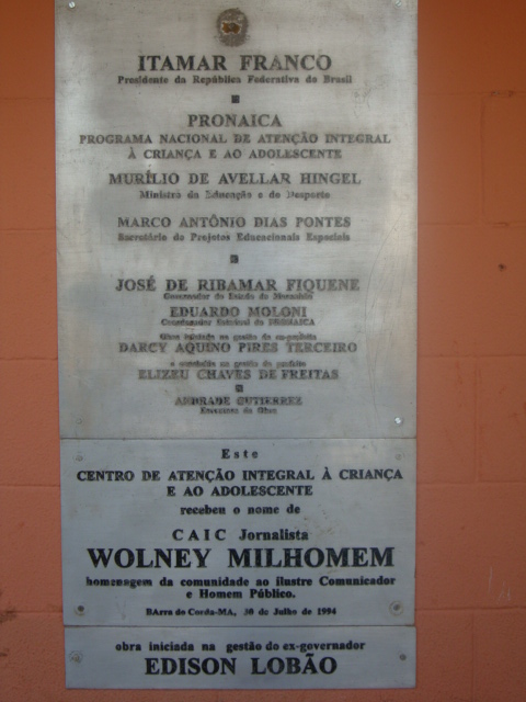 Foto da placa homenageativa do CAIC Wolney Milhomem - Barra do Corda